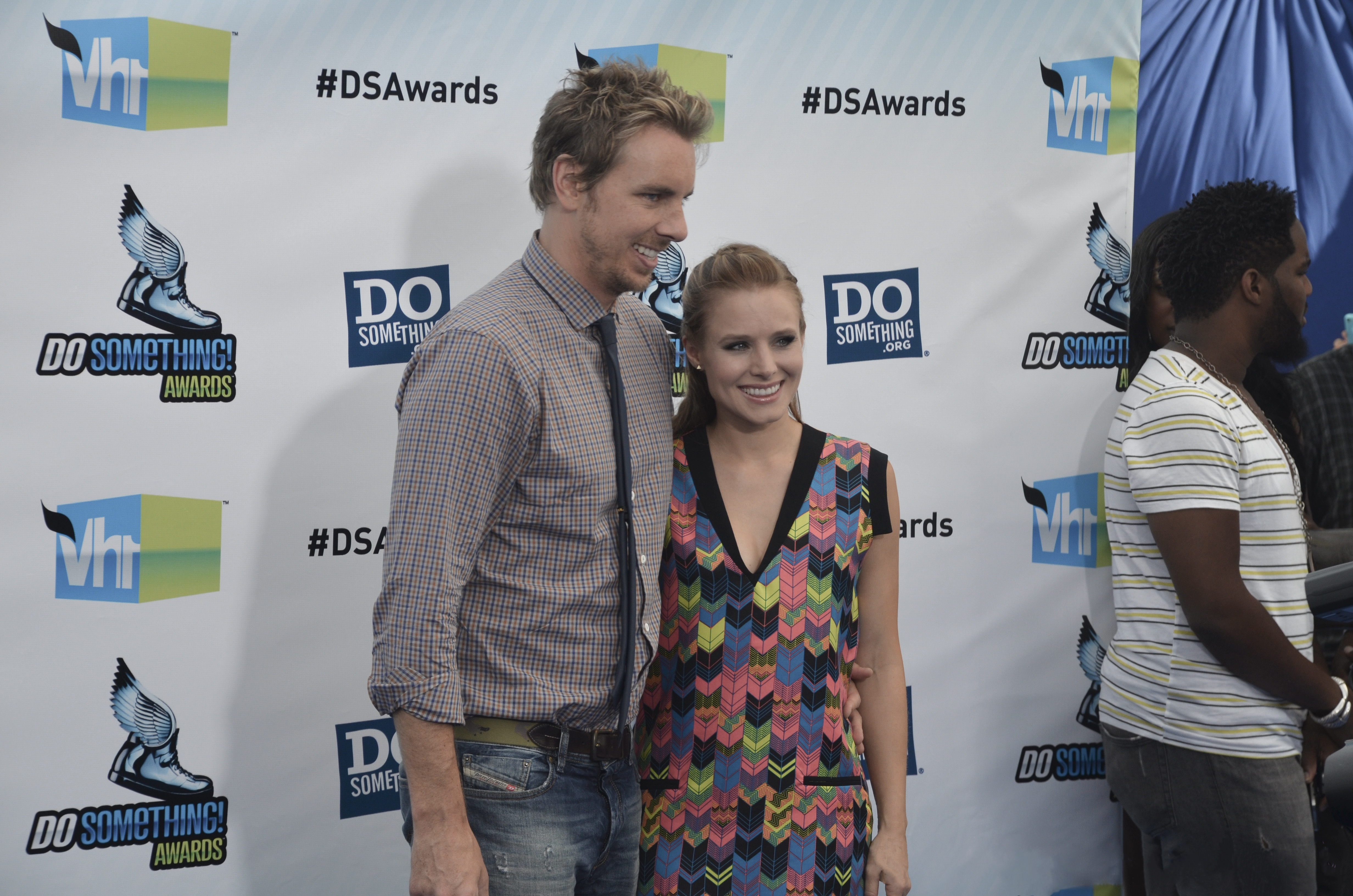 Mingle Media TV and Red Carpet Report host, Erin White, were invited to cover the taping of the Vh1 Blue Carpet for the 2012 Do Something Awards held in Santa Monica. The winner is a secret for now - but will be revealed on Tuesday the 21st of August! Be sure to visit our Red Carpet Report site for all the details on who won this year including photos and interviews here at The official show will air on Tuesday, August 21st 2012, at 9 PM on VH1. The 2012 Finalists vying for the $100,000 for their community project or charity are: Manyang Reath Kher, 23, Richmond, VA: Humanity Helping Sudan Meg Bourne, 22, Joplin, MO: Art Feeds Danny Mendoza, 23, Chino, CA: Together We Rise Katia Gomez, 24, San Leandro, CA: Educate2Envision Seth Maxwell, 24, Los Angeles, CA: The Thirst Project Amie Sider, 25, Kitchener, Ontario: NationWares Sasha Fisher, 24, New York, NY: Spark Microgrants Mark Arnoldy, 25, South Boston, MA: Nyaya Health Jaclyn Murphy, 17, Hopewell Jct, NY: Friends of Jaclyn Tyree Dumas, 23, Philadelphia, PA: DollarBoyz Academy Scott Warren, 25, Boston, MA: Generation Citizen Ryland King, 22, Goleta, CA: Environmental Education for the Next Generation About VH1's Do Something Awards Since 1996, has honored the nation’s best young world-changers, 25 and under*. Do Something Award nominees and winners represent the pivotal "do-ers" in their field, cause, or issue. In 2012 (up to) five finalists will appear on the Do Something Awards on Vh1 and be rewarded with a community grant, media coverage and continued support from . The grand prize winner will receive $100,000 during the broadcast. For more of Mingle Media TV’s Red Carpet Report coverage please visit our website and follow us on Twitter and Facebook here: Follow Erin on Twitter at